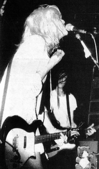 Hole & Courtney Love rehearsal, 1989, Los Angeles, California